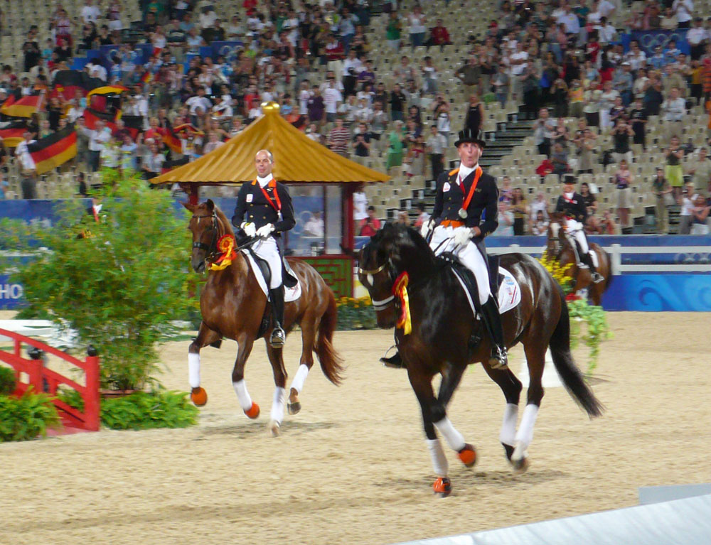 The silver medalists - Great Britain riders in Beijing 2008 Olympic Game - Equestrian Event - Victory Ceremony of Dressge Team Grand Prix.